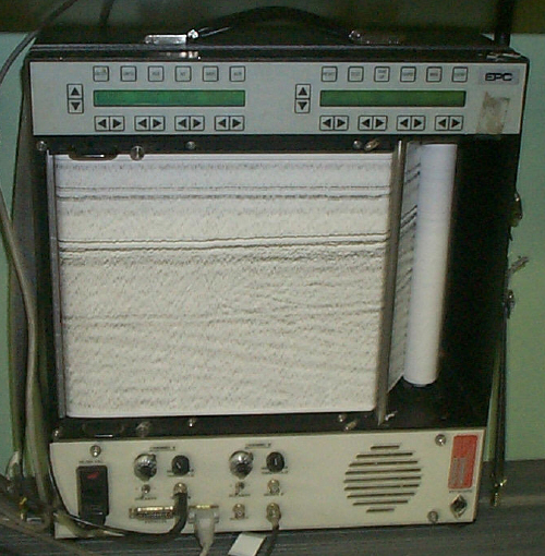 Photograph shows an EPC GSP-1086 10" thermal printer used to print seismic profile data in real time during USGS Cruise ALPH 98013 (USGS Open File Report 99-37). Thermal printers are used in ocean exploration to create physical copies of seismic and side scan sonar imagery during data acquisition.